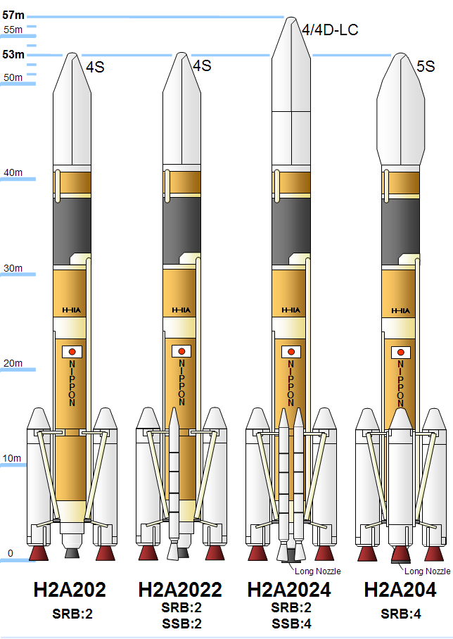 H-IIA rocket family